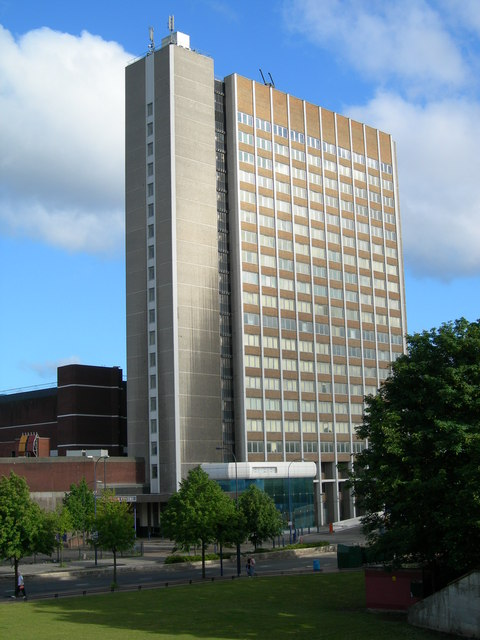 Lewisham House, 25 Molesworth Street, SE13 7EX This is an operations centre for Citibank. It is a prominent landmark in the Lewisham area.